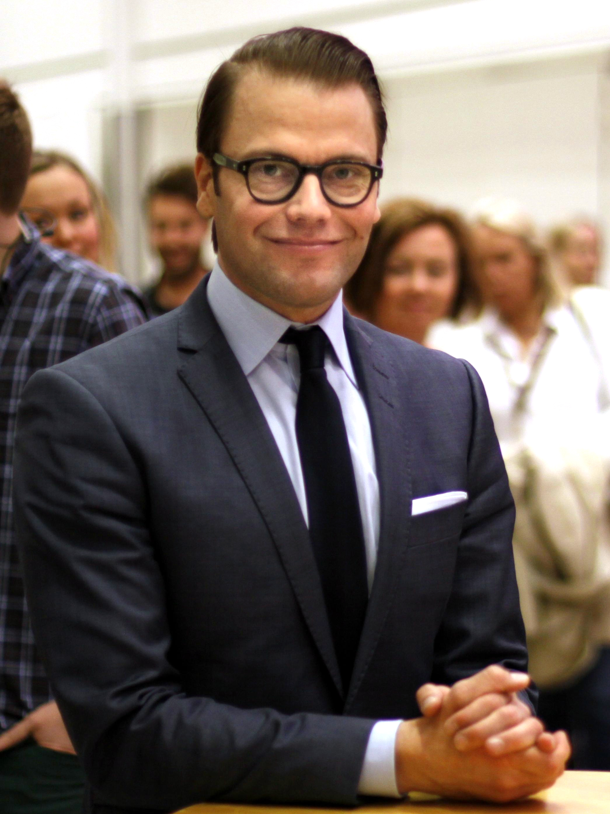 The Duke of Västergötland in May 2013